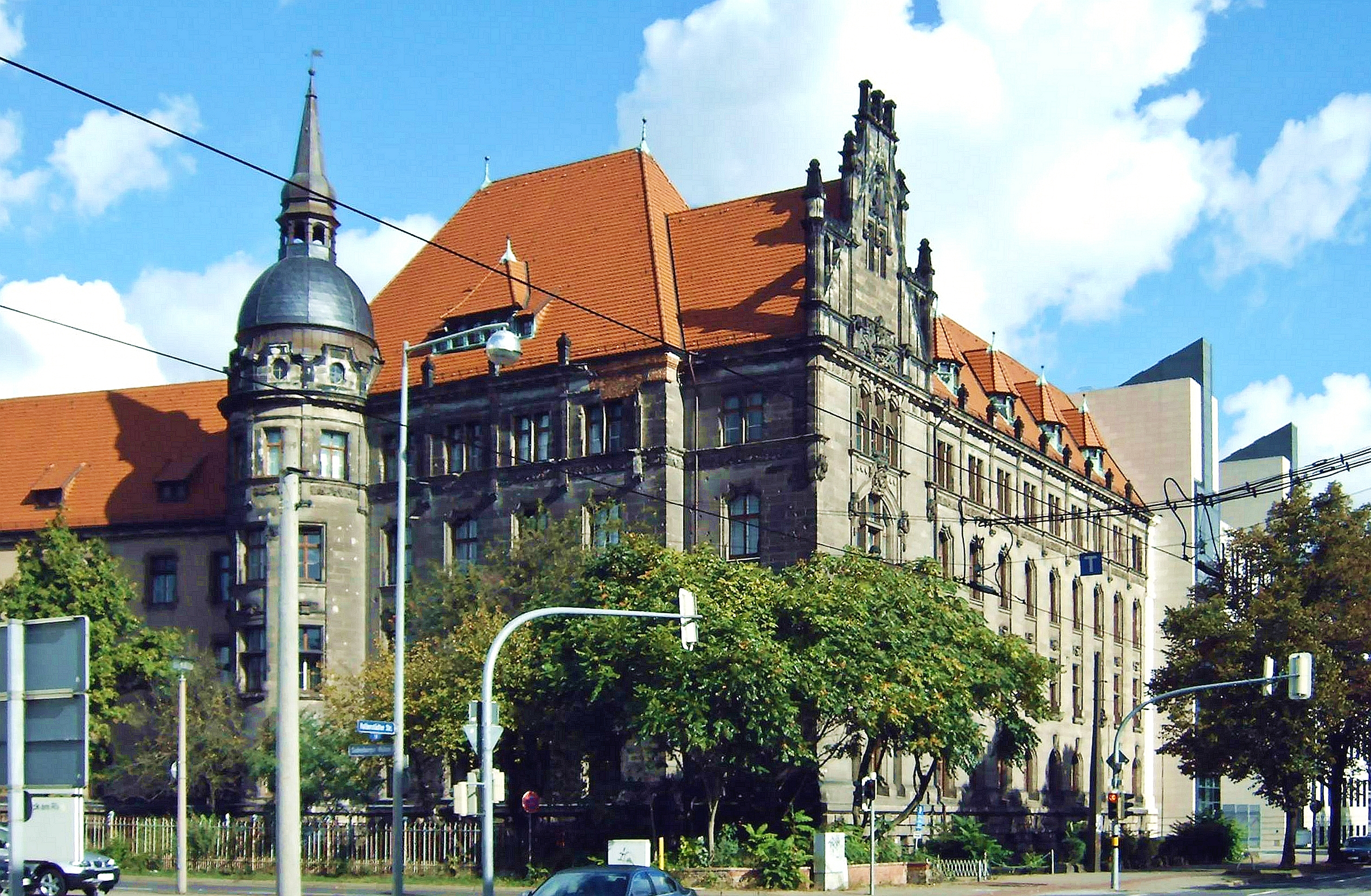 district court (Magdeburg)